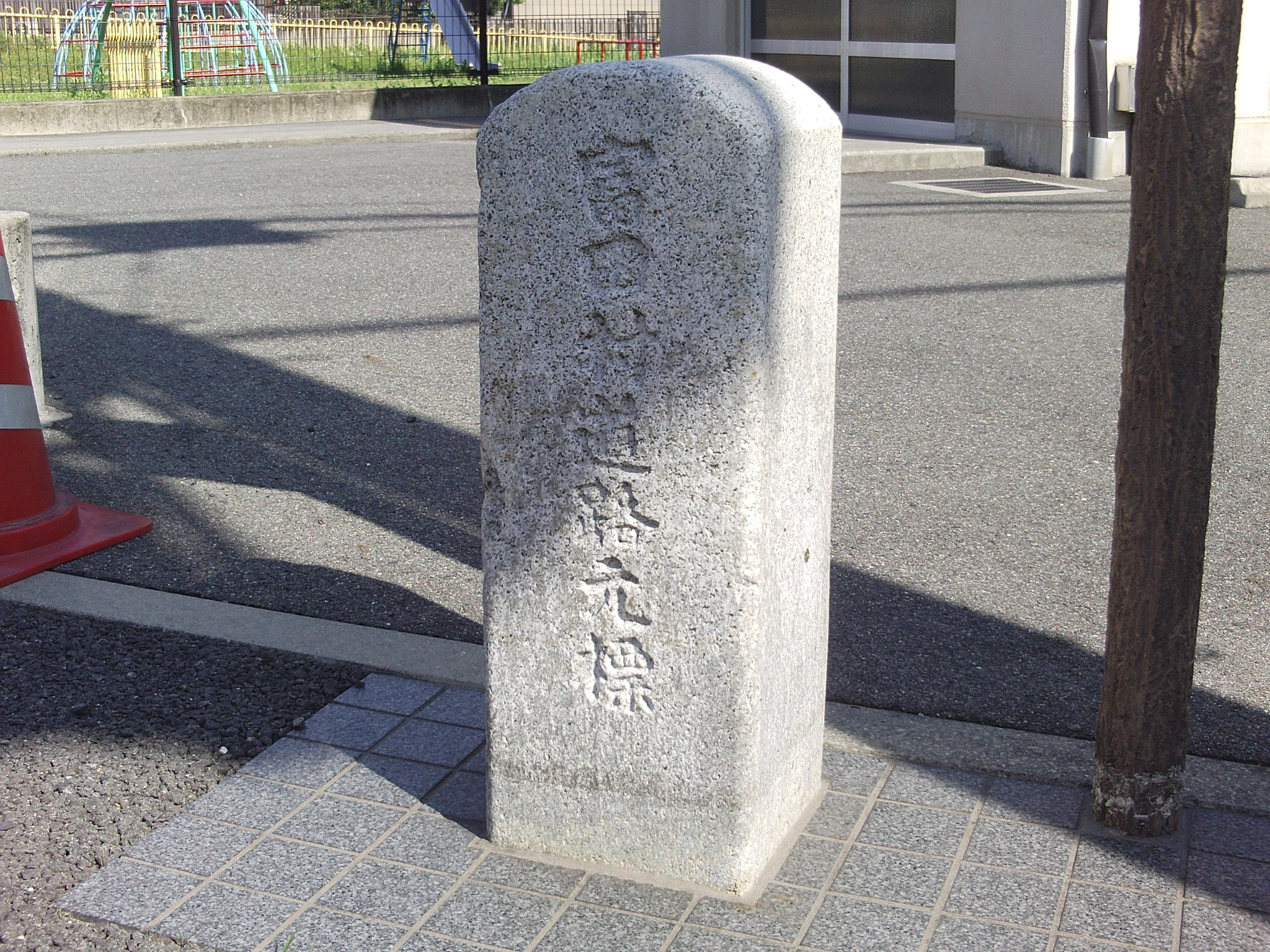 Kilometre zero of Tomida village. (Tomida village, Ama-gun, Aichi.)